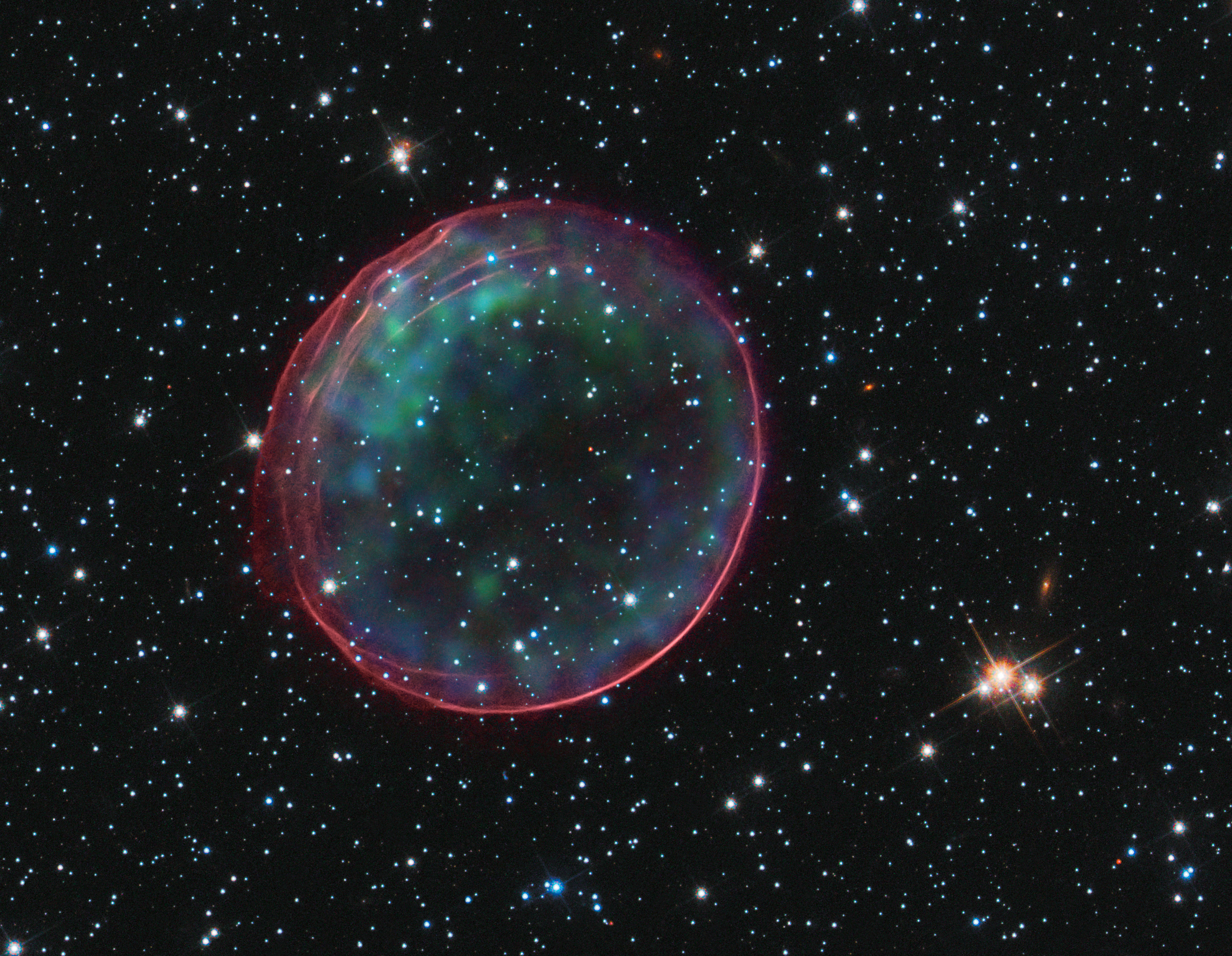 Combined photos of SNR B0509-67.5 made by HST and Chandra space telescopes.